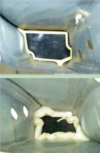 1-Preformed part: a polymer material (light yellow) (for example based on EVA), containing a foaming agent (for example an azodicarbonamide) and a crosslinker (for example a peroxide), with a PA 6.6 support (black) (high melting point) were placed in a hollow body of a car. 2-During the electro-cataphoretic (e-coat) curing step in an oven (body shop step), expansion and cross-linking of the yellow material (formation of a foaming sealant) for sealing against water, air (sound insulation) and dust.